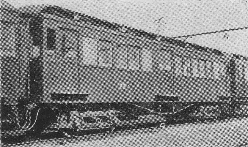 Hankyu 28.